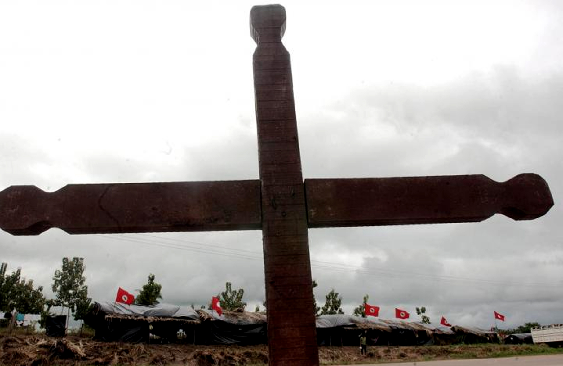 Cruz marca o local do massacre em Eldorado dos Carajás, Pará, Brasil.